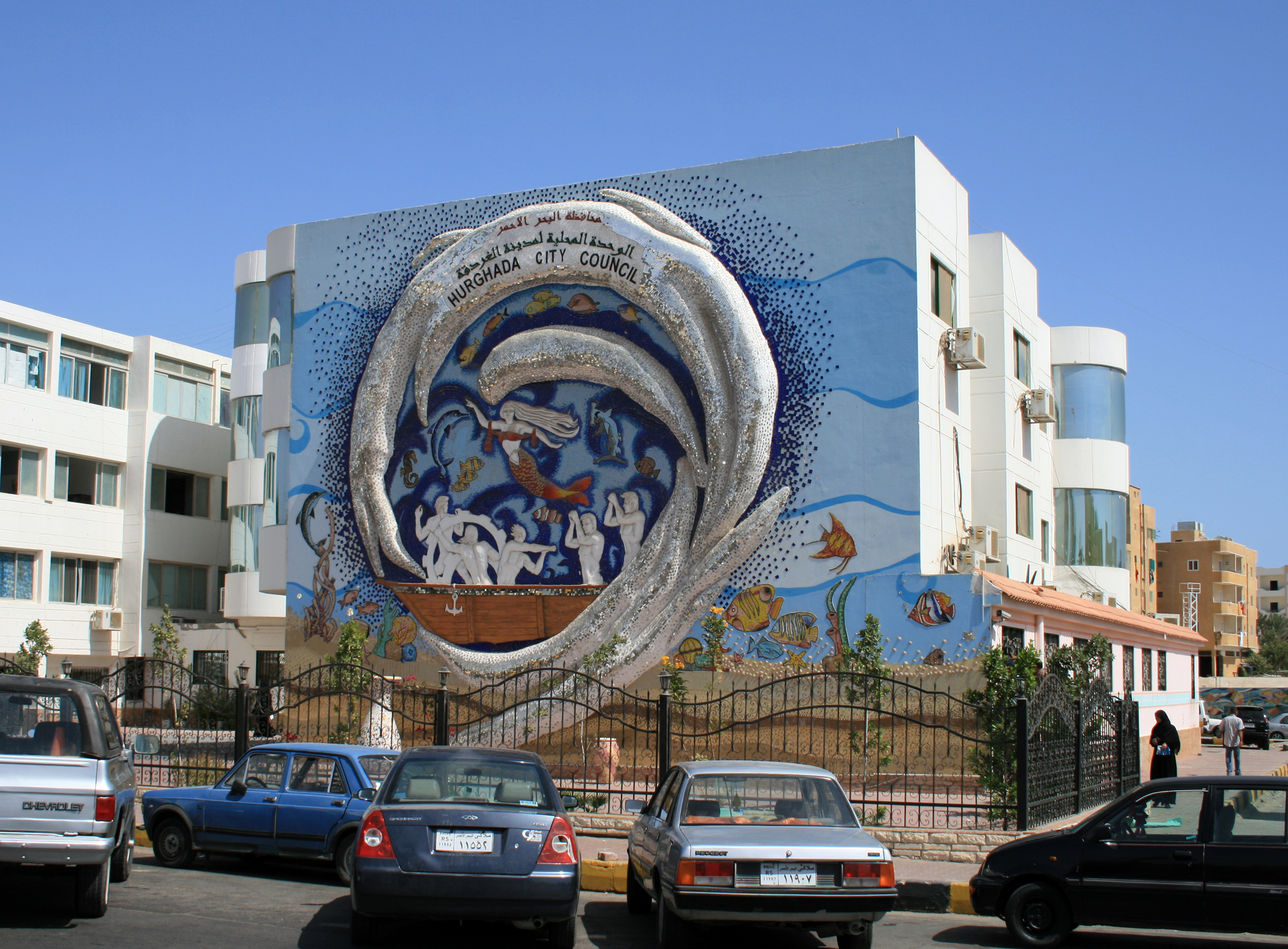 Building of Hurghada City Council, Egypt